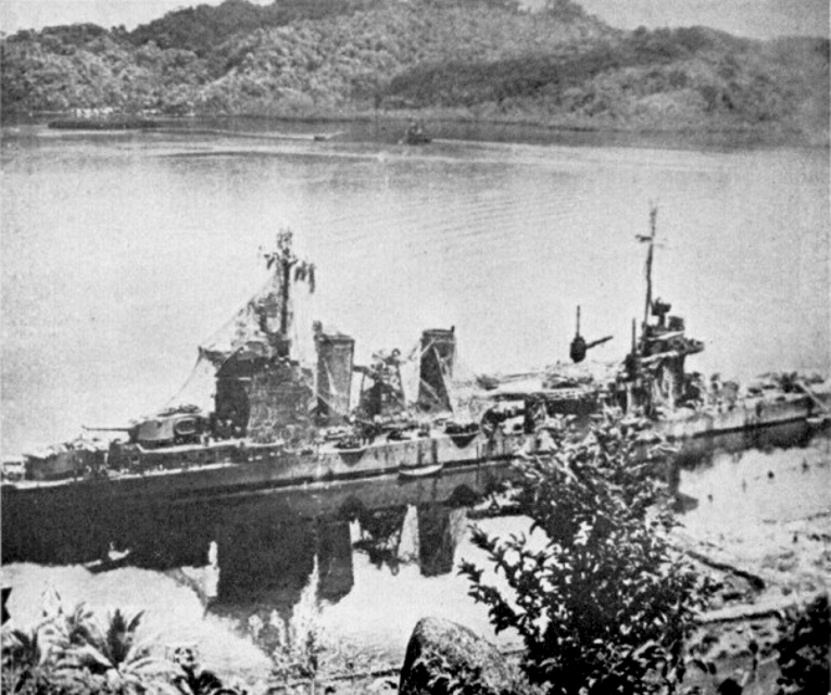 The U.S. Navy heavy cruiser USS Minneapolis (CA-36) covered in camouflage to avoid detection while undergoing temporary repairs at Tulagi, Solomons, after the Battle of Tassafaronga.